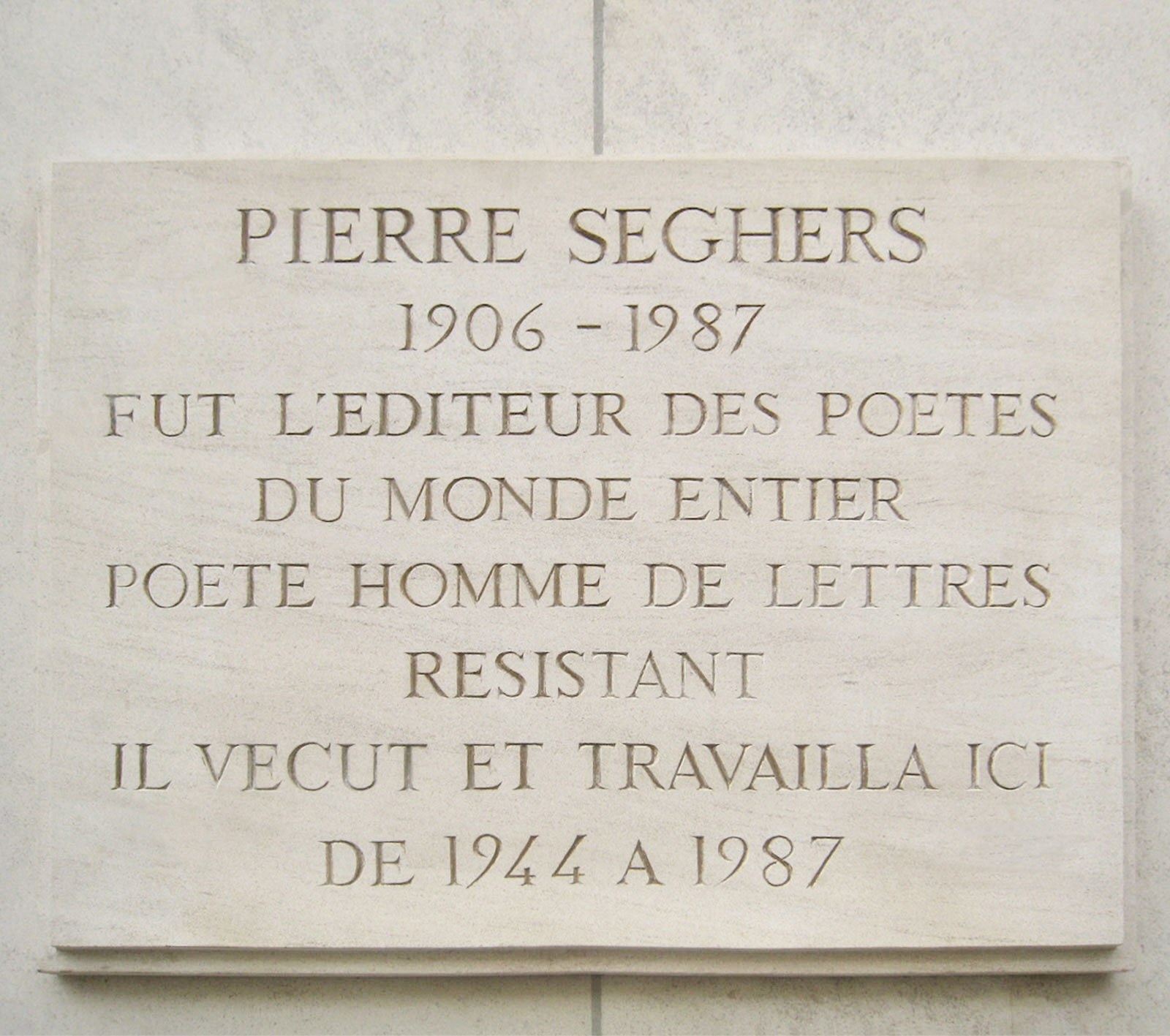 marble plaque on building 228 boulevard Raspail, Paris